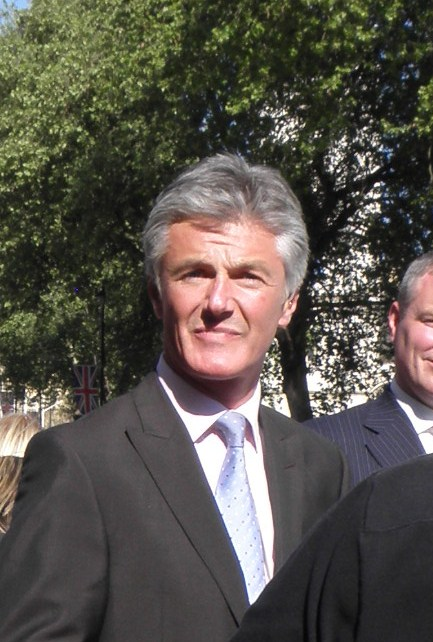 Tim Willcox reporting on preparations for the 2011 Royal Wedding, standing opposite Westminster Abbey